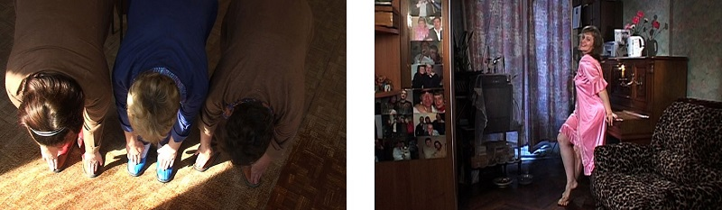 fragment from the exhibition